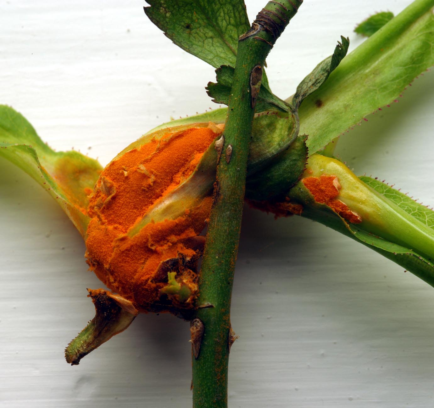 Phragmidium species on Rosa